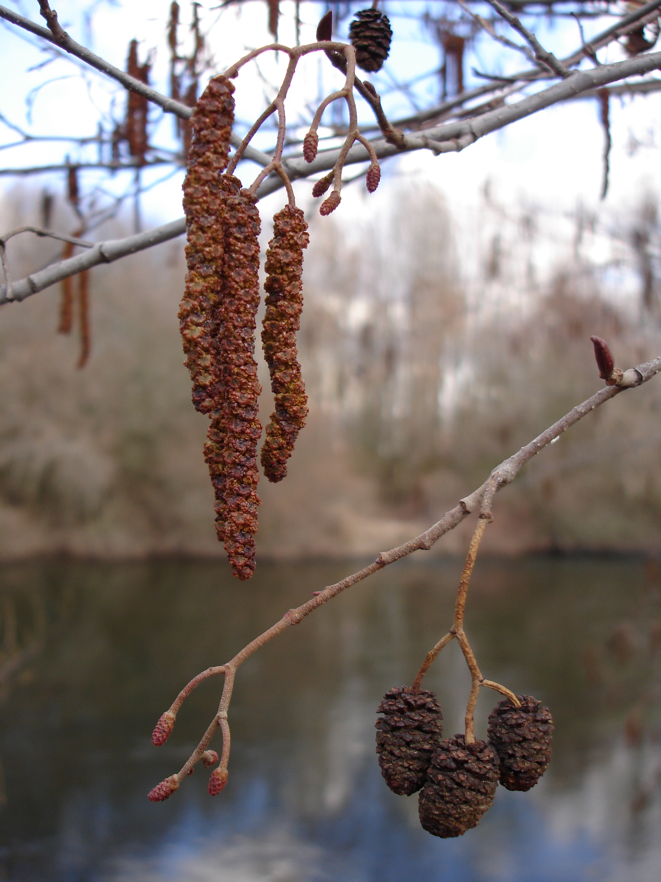 Male and female catkins of Black Alder (Alnus glutinosa). River Porma, León (Spain)